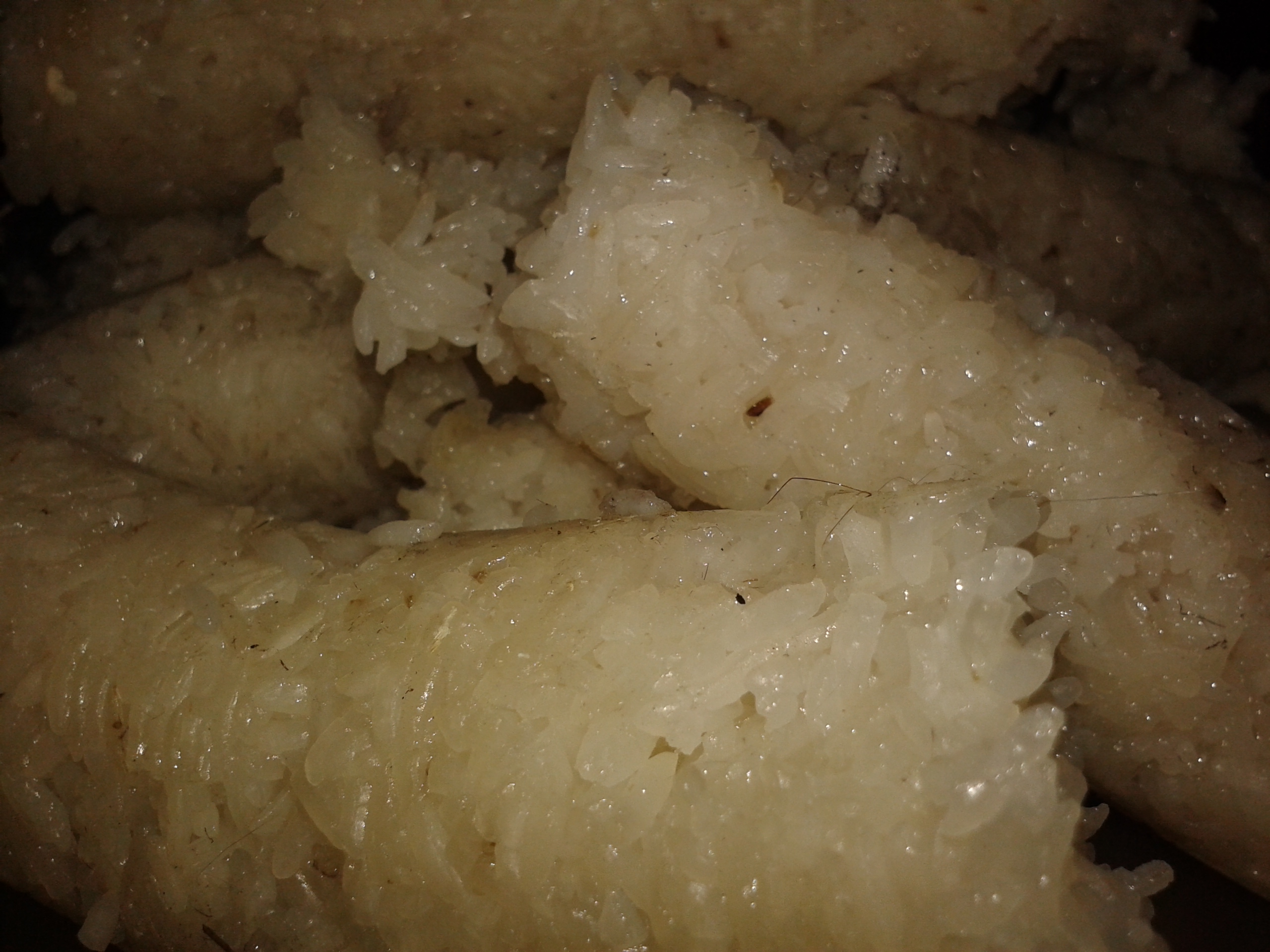 Sunga saul, cooked glutinous rice in bamboo in Assam, North-East India.